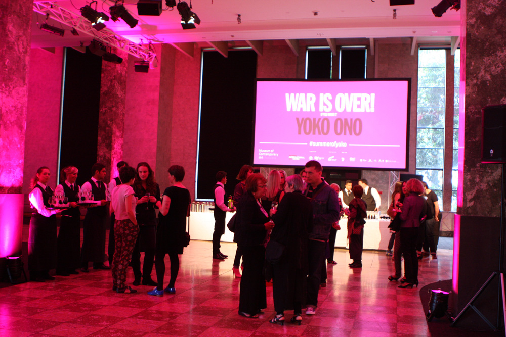 'War Is Over! (if you want it) Yoko Ono' exhibition - Sydney, Museum of Contemporary Art Australia